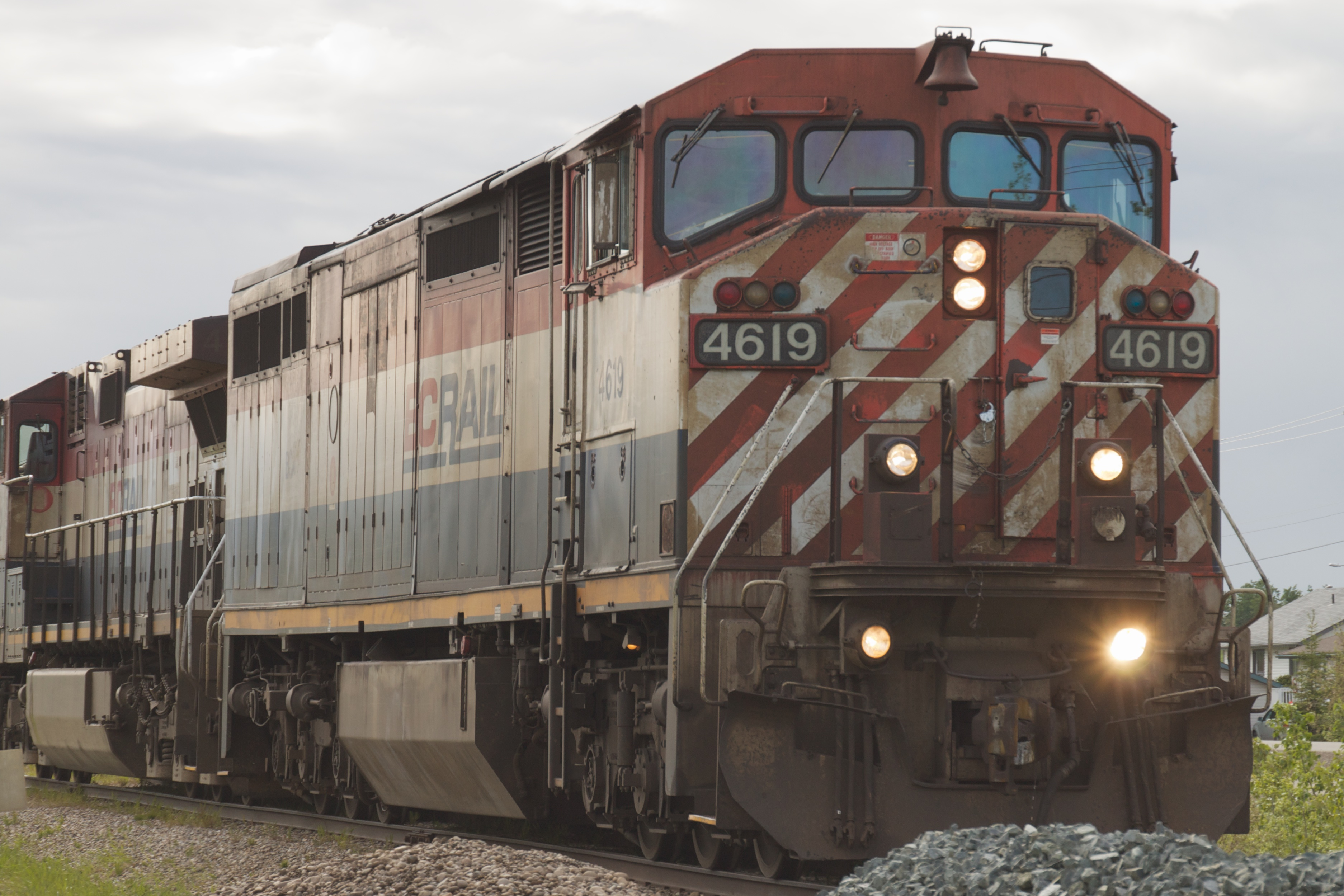 BC Rail No. 4619 A piece of the railroad system that the citizens of BC still own.